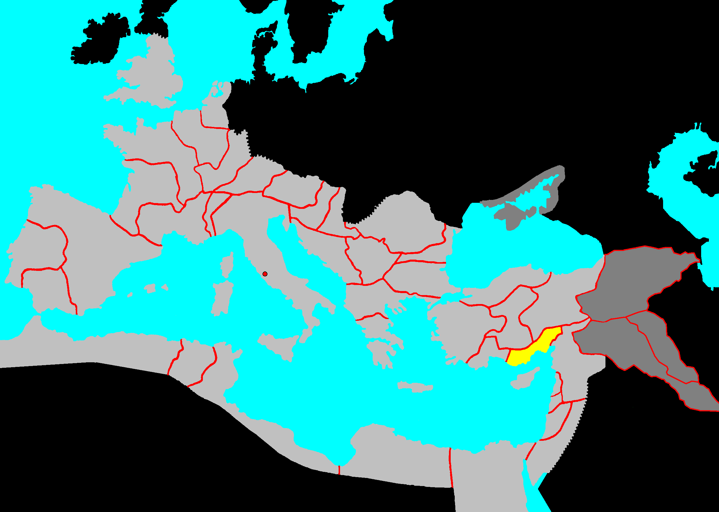 Description: provinces of the Roman Empire (Imperium Romanum) Source: own work Date: December 2005 Author: --Immanuel Giel 12:47, 13 December 2005 (UTC) Other versions: none